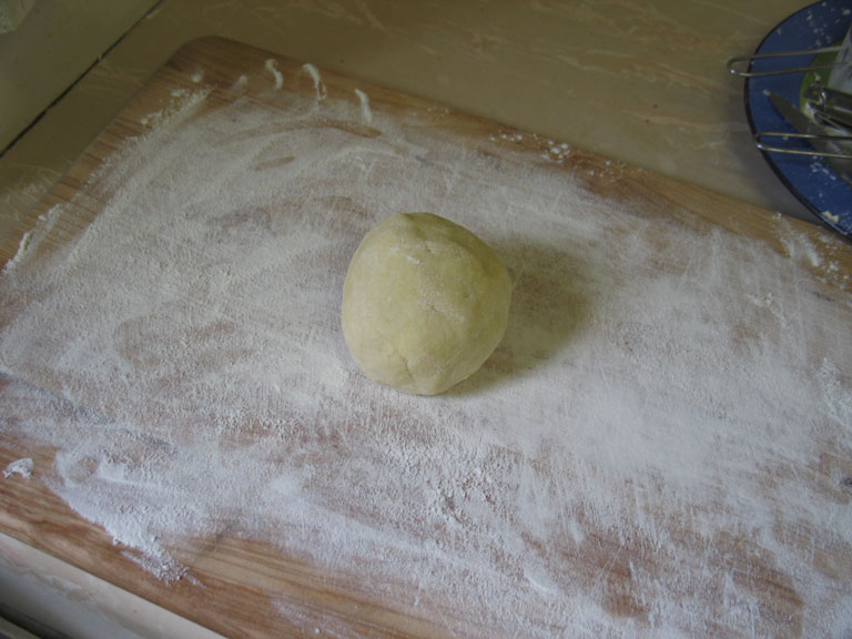 Dough for pie crust on a lightly floured board.